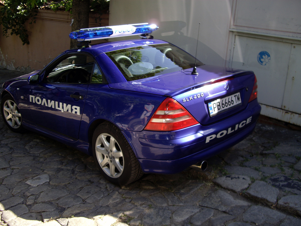 Bulgarian Mercedes-Benz SLK 200 police car in Plovdiv